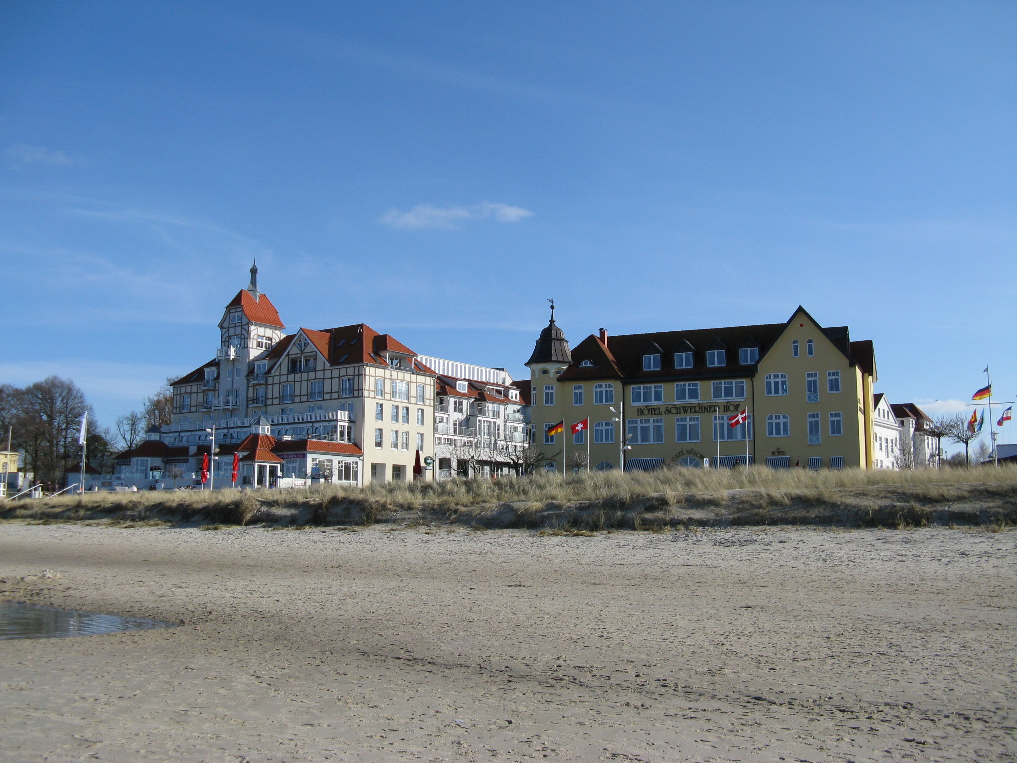 Hotels at beach of Kühlungsborn, Germany